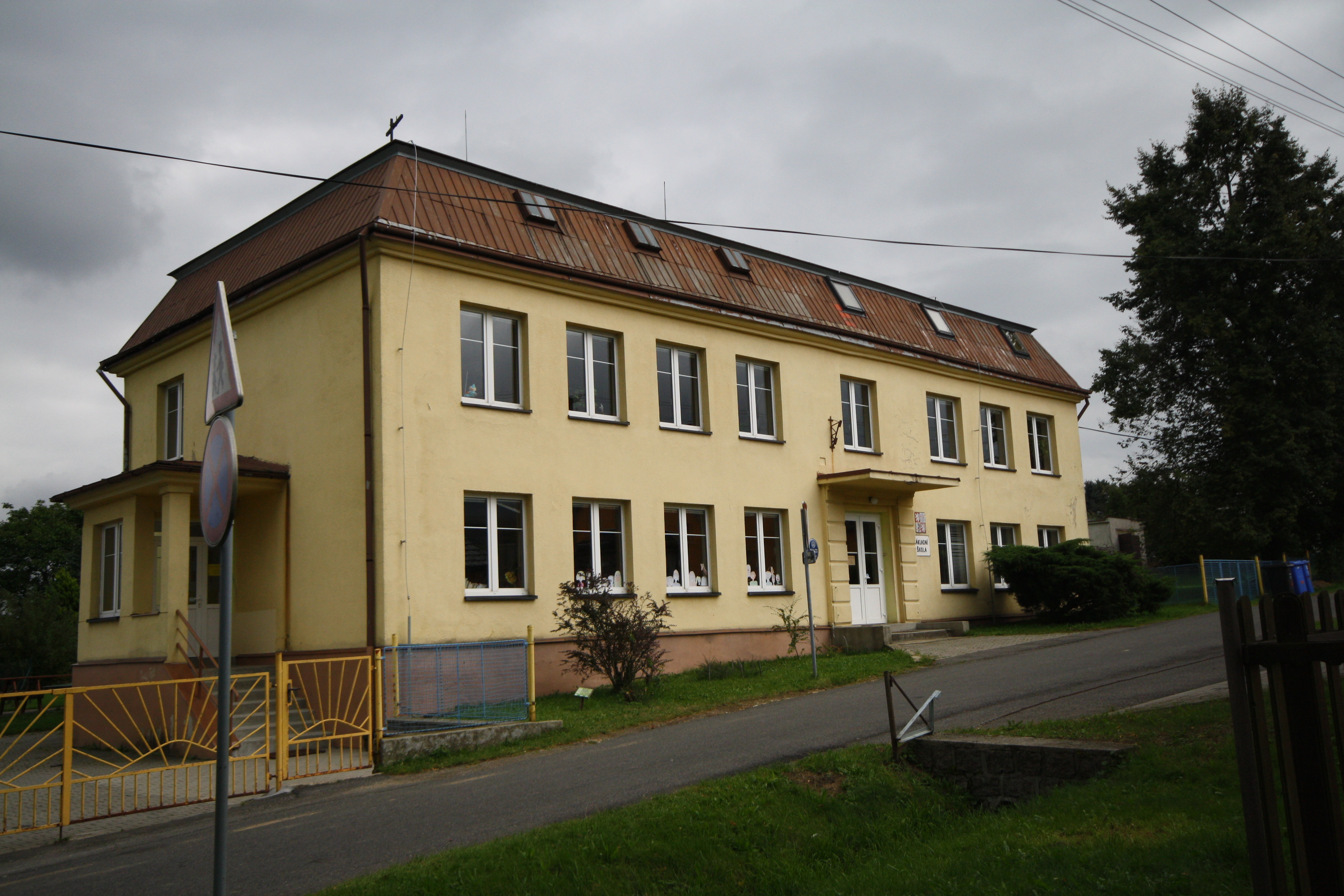 Elementary school in Horní Suchá, Liberec